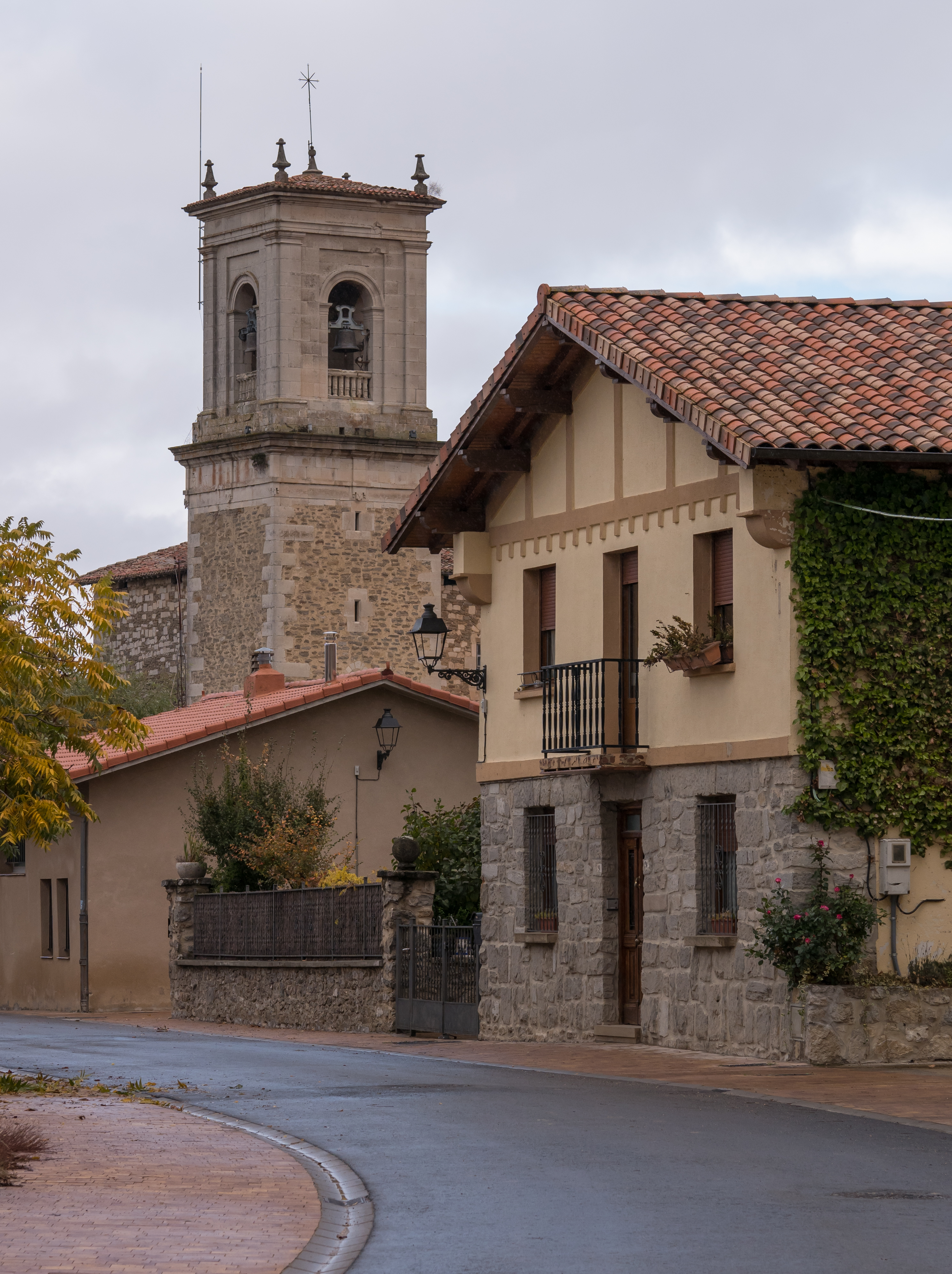 Villages houses and church in Arkaia, Álava, Basque Country, Spain